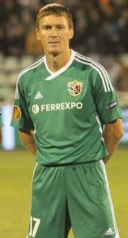 Vasyl Sachko